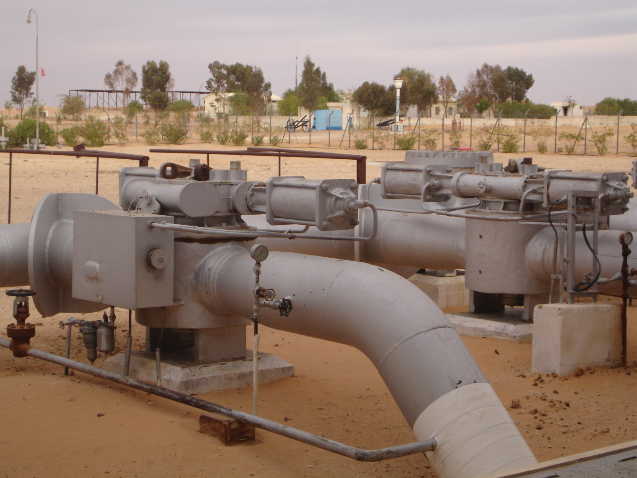 Naware pipes